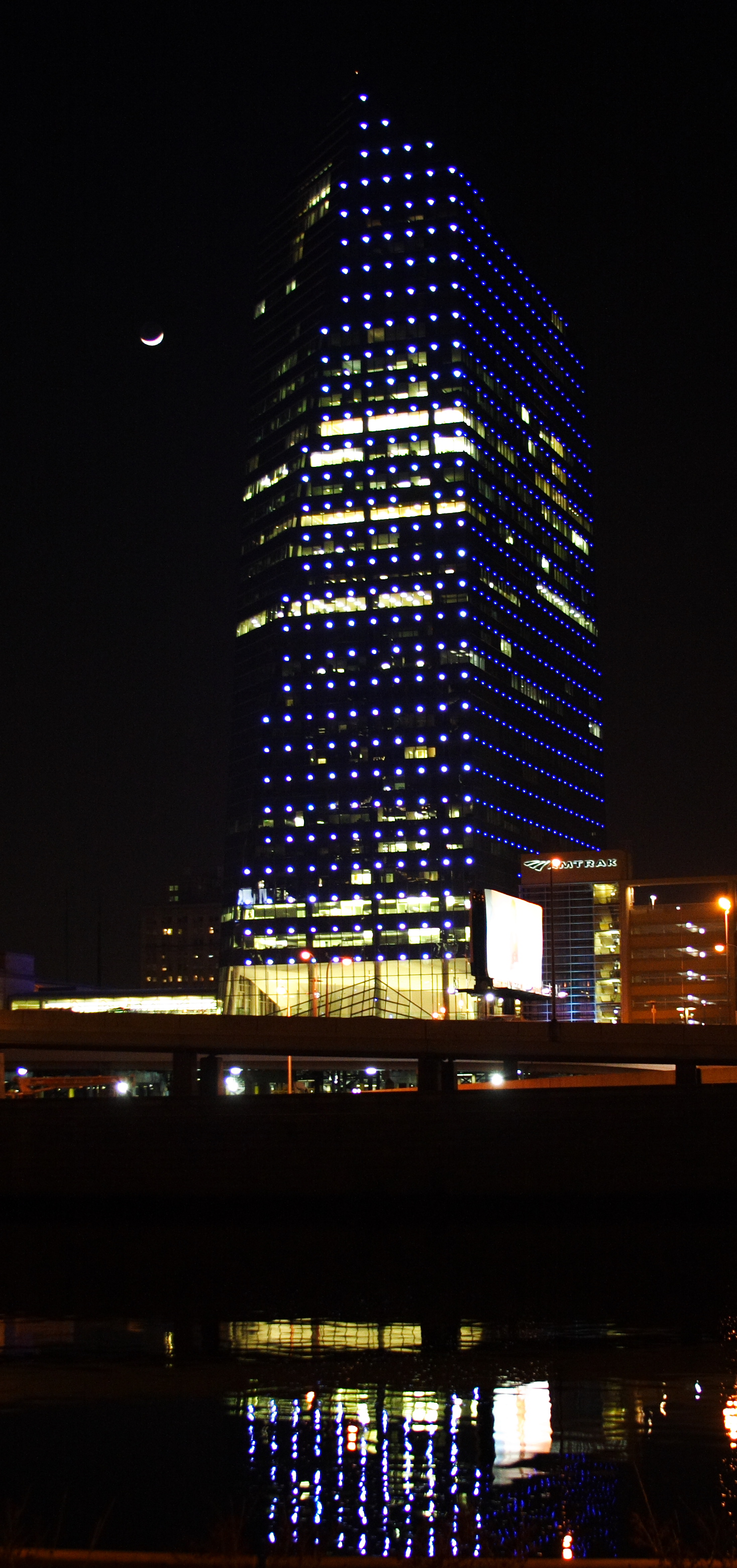 Cira Centre in Philadelphia, Pennsylvania, United States at night